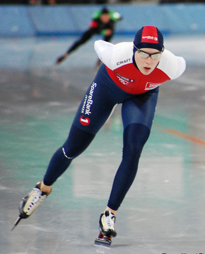 3000 meters. National Championship single distances, Hamar. November 2nd 2008